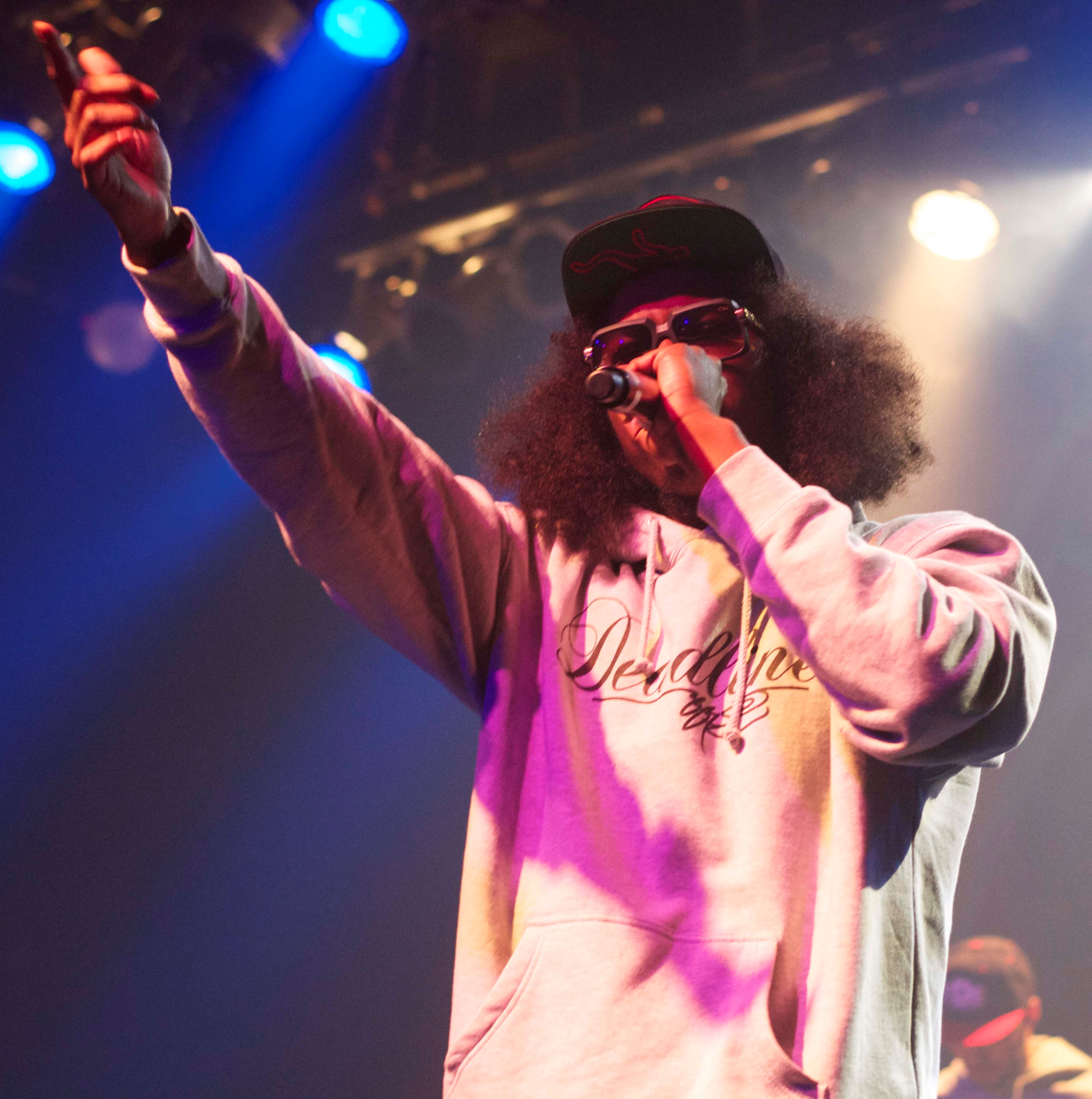 Ab-Soul performing at The Come Up Show's 2013 Smokers Club Tour in Toronto.